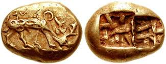 Ephesos, 620-600 BC. EL Trite (4.72 gm). ΦΑΝΕΩΣ retrograde, stag grazing right, its dappled coat indicated by indentations on the body / Two incuse punches, each with raised intersecting lines.